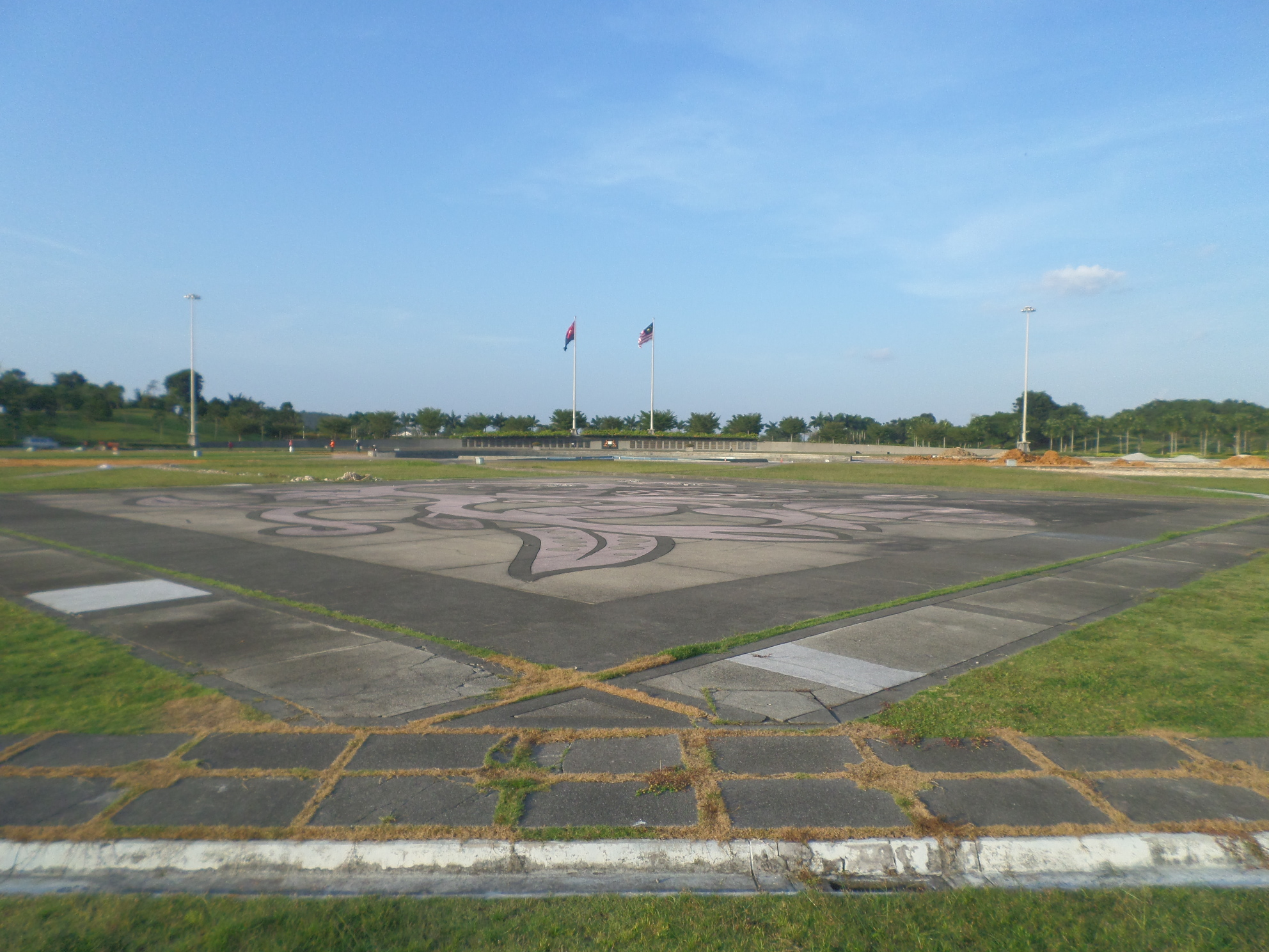 Mahkota Square, Kota Iskandar, Iskandar Puteri, Johor Bahru, Johor, Malaysia